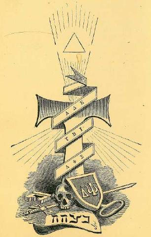 Historic St. Anthony Hall Delta Psi symbol (not currently used by organzation)